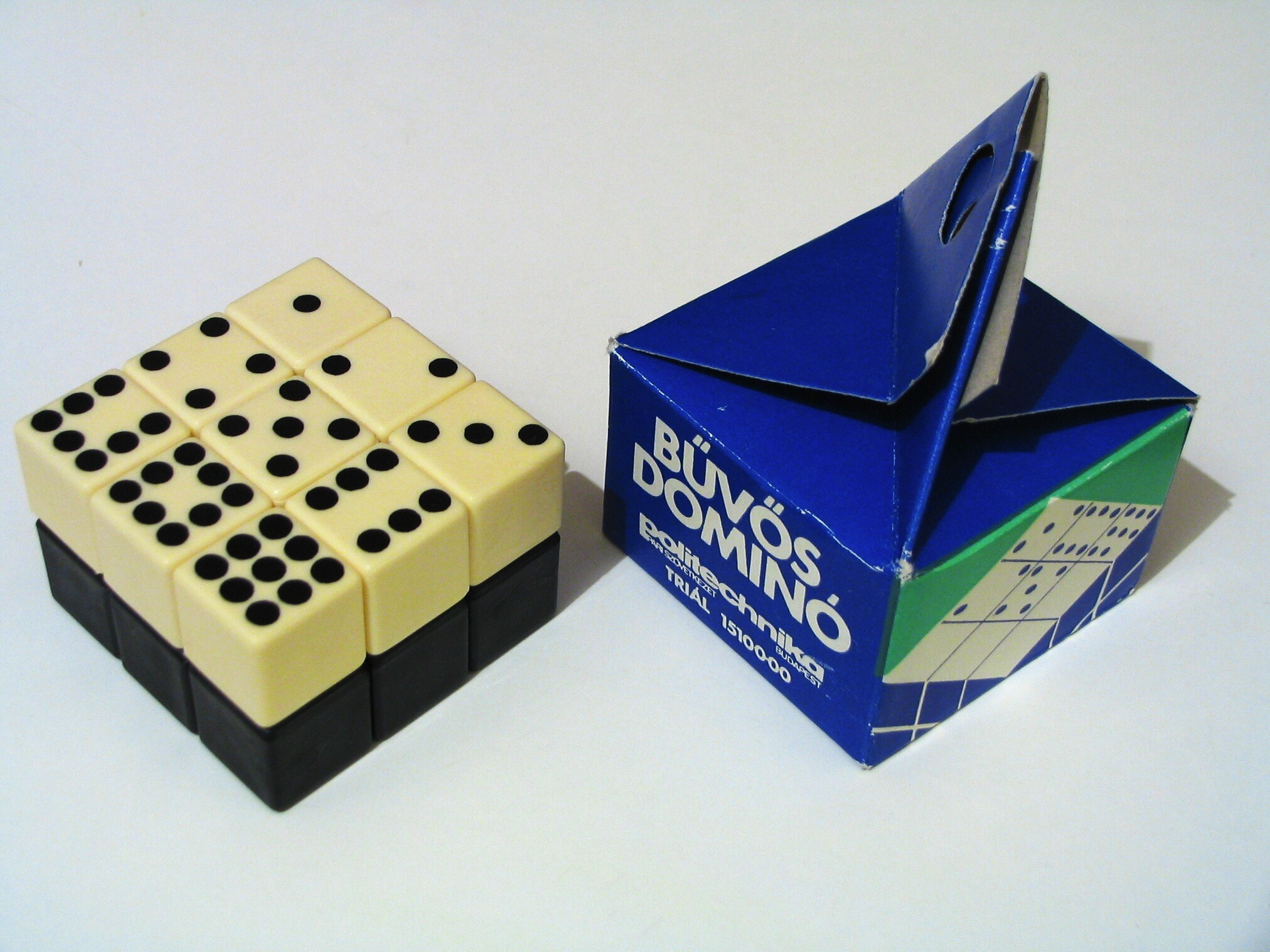 Rubik's Domino